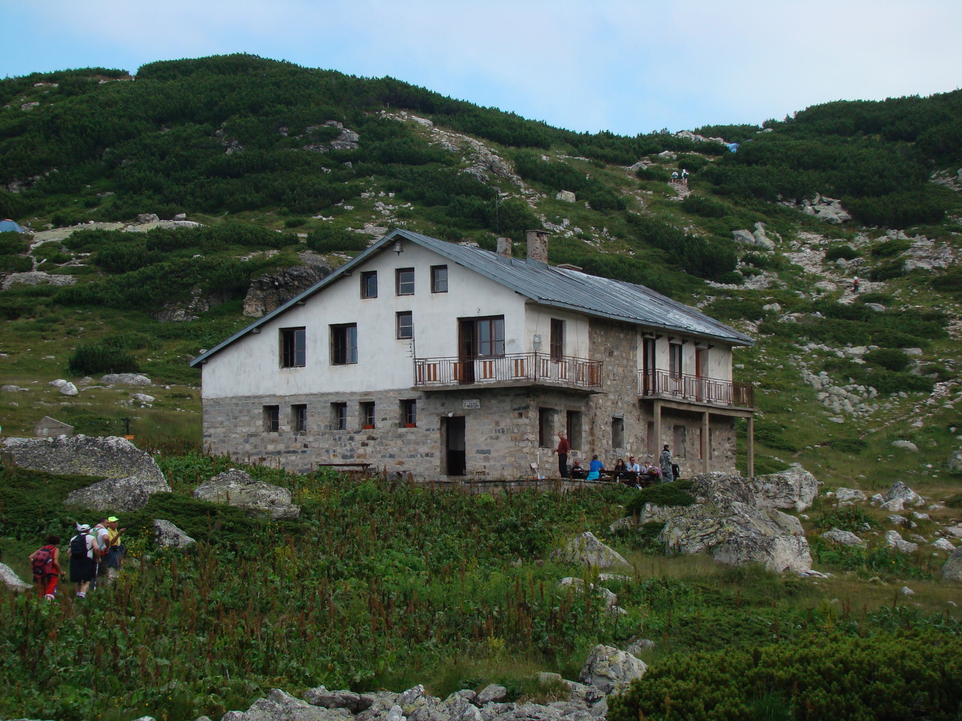 Bulgaria, mountains, Rila, chalet Sedemte Ezera